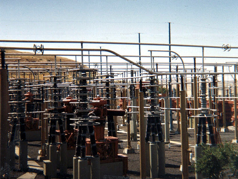 As seen in 1989, big power lines connecting Pacific Northwest to Southern California for power sharing. Sometimes power goes south. Other times comes north depending on needs. Celio Converter turns AC power into DC power for more efficient transmission over long distances.